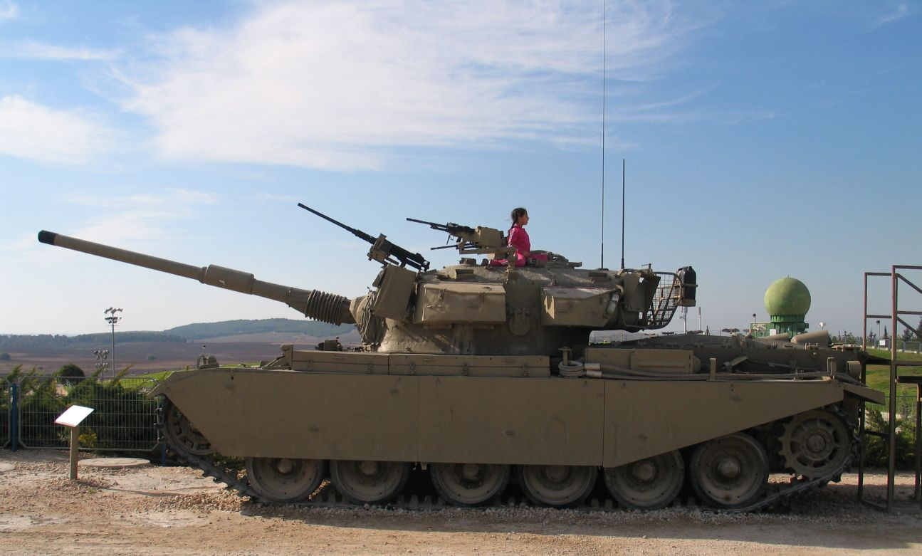 Description: Centurion (Shot Kal Gimel) MBT in Yad la-Shiryon Museum, Israel. Source: Photo by me, User:Bukvoed.